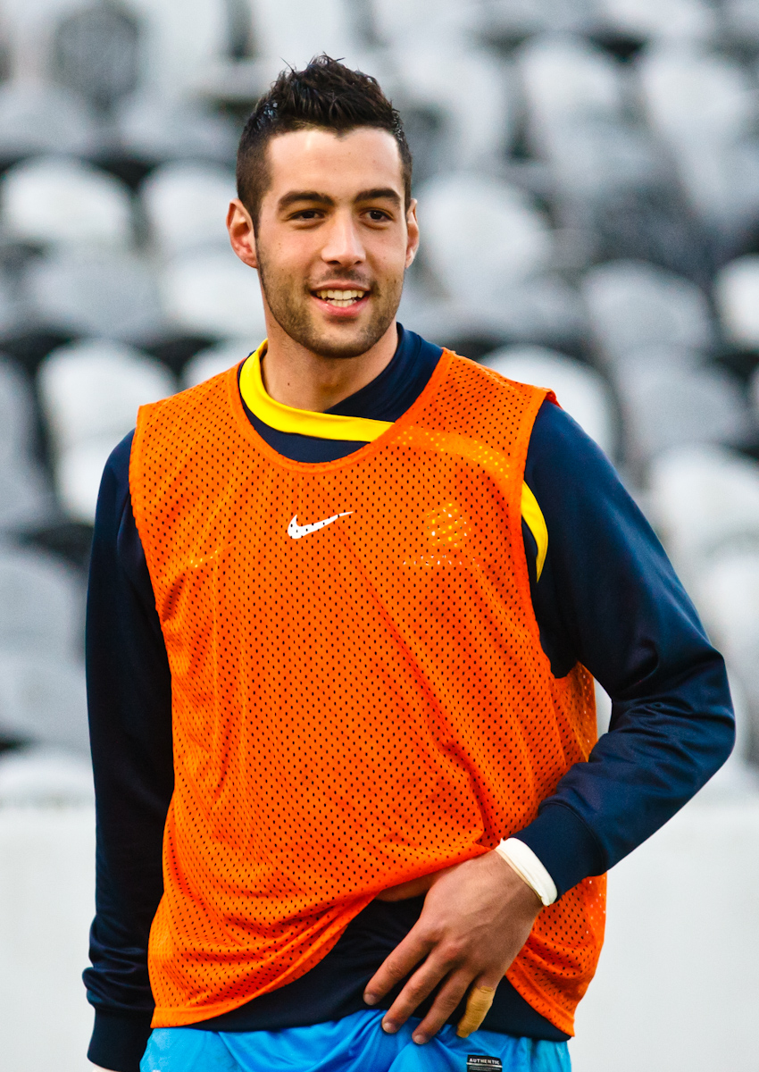 Dean Bouzanis warming up for the Australian Olympic Football team in 2011 at Gosford, New South Wales.